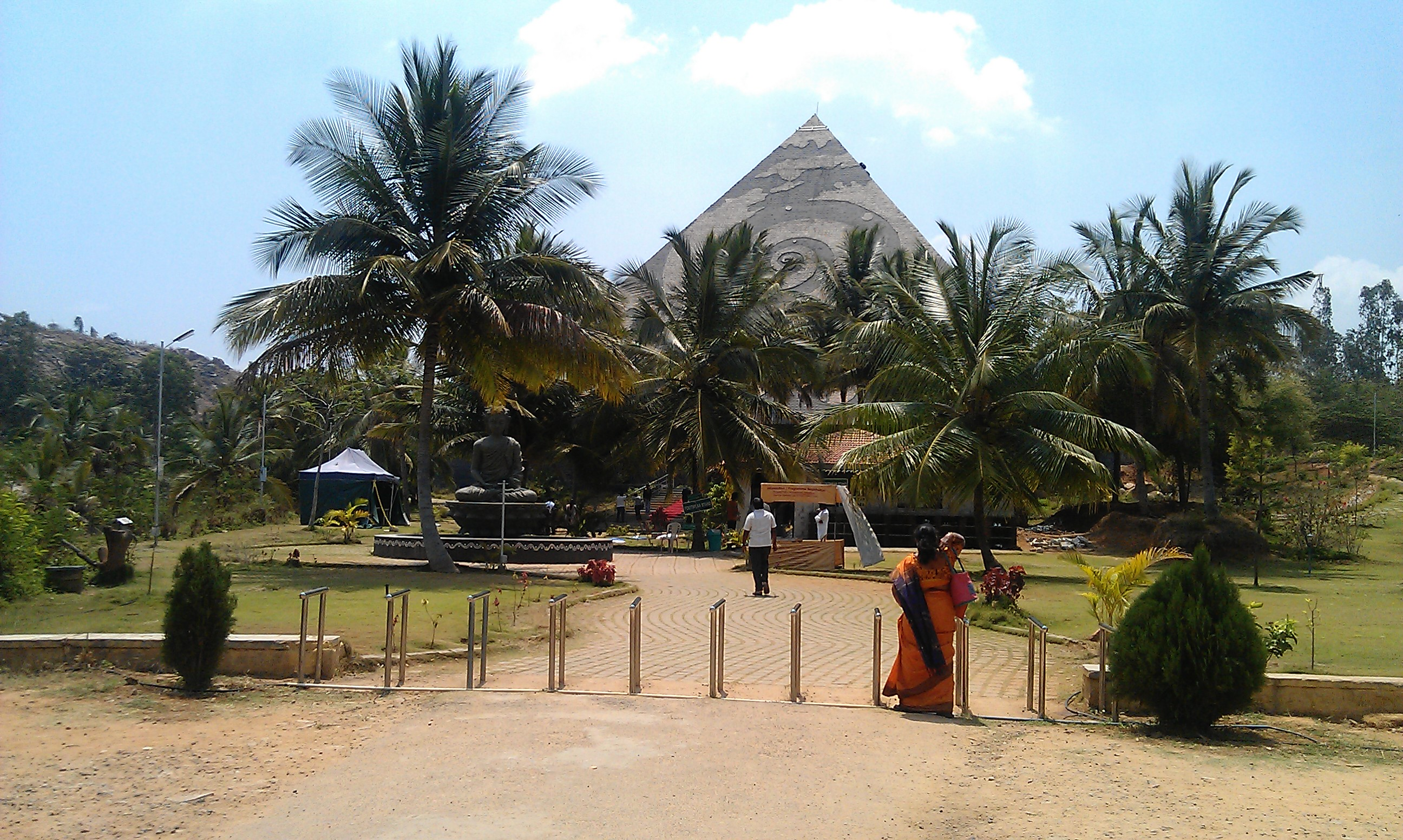 Pyramid Valley, home for the World’s Largest Meditational Pyramid, is an International Meditation Center serving individuals, societies and organizations in their quest for self realization and spiritual wisdom and helps them unlock their hidden potential.